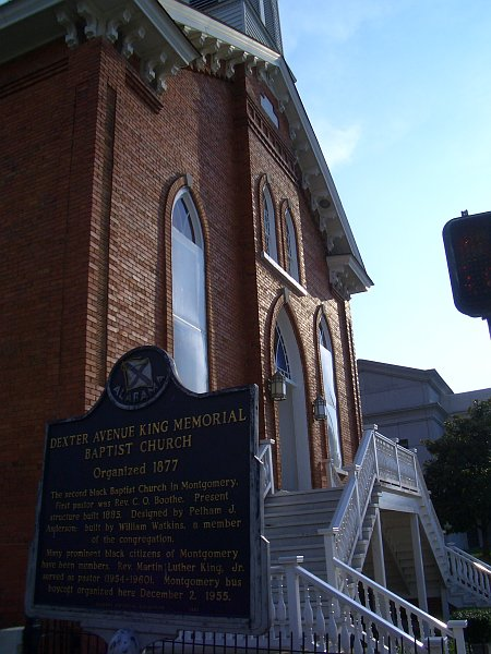 The Dexter Avenue Baptist Church in Montgomery, Alabama.